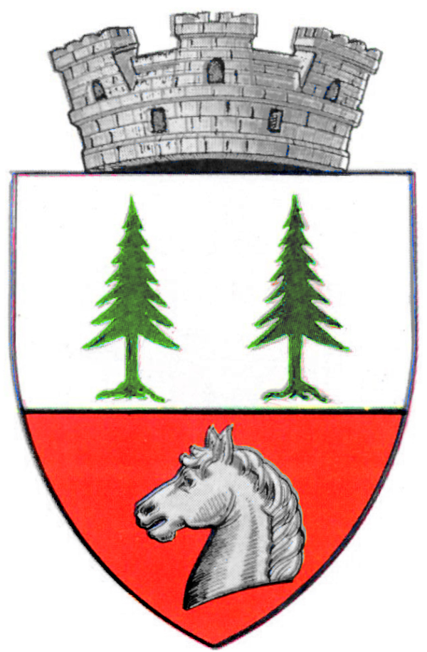 Interwar coat of arms of Kitsman, Cernăuți County, Kingdom of Romania.